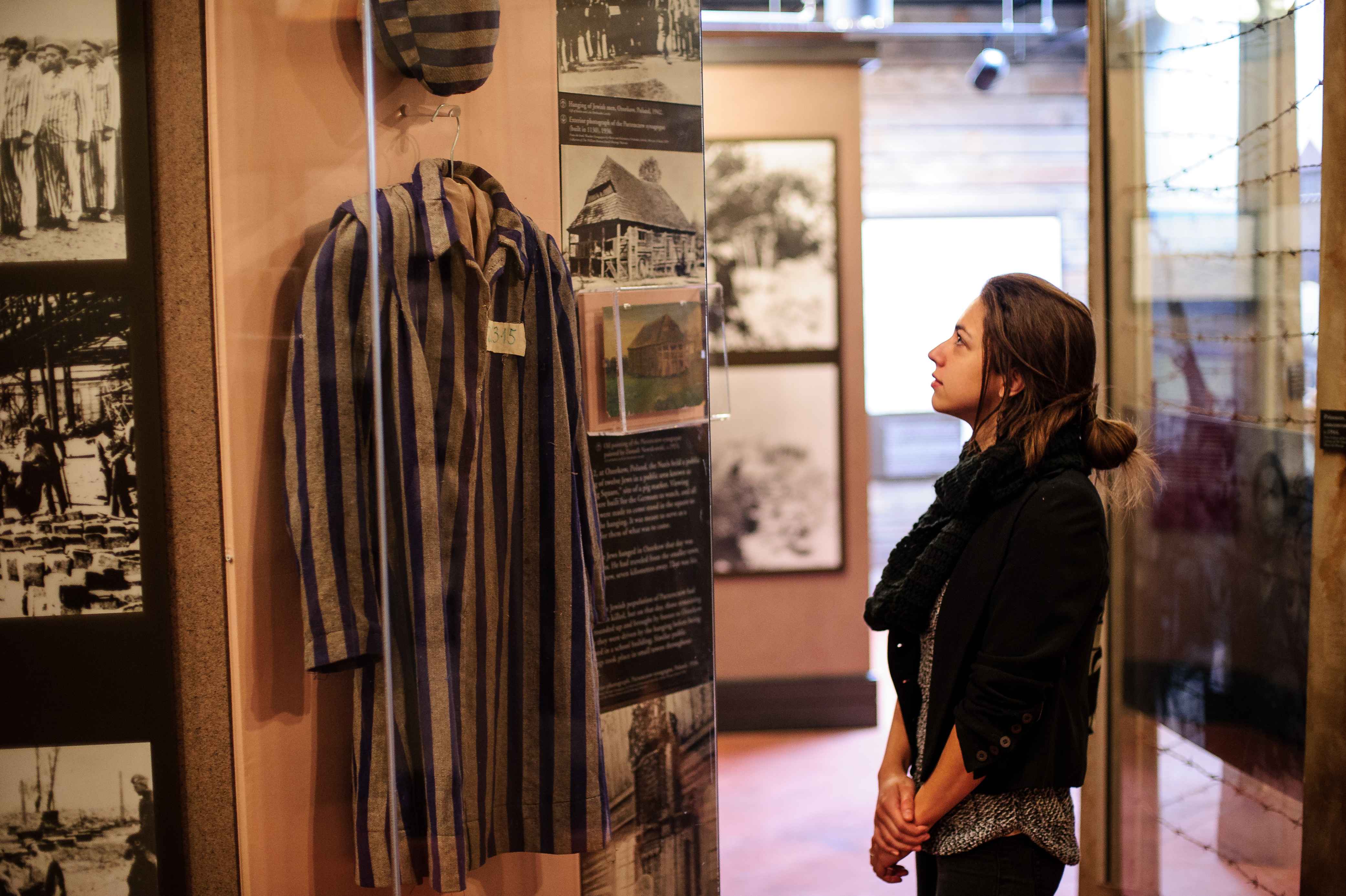 Visitor at The Breman Museum